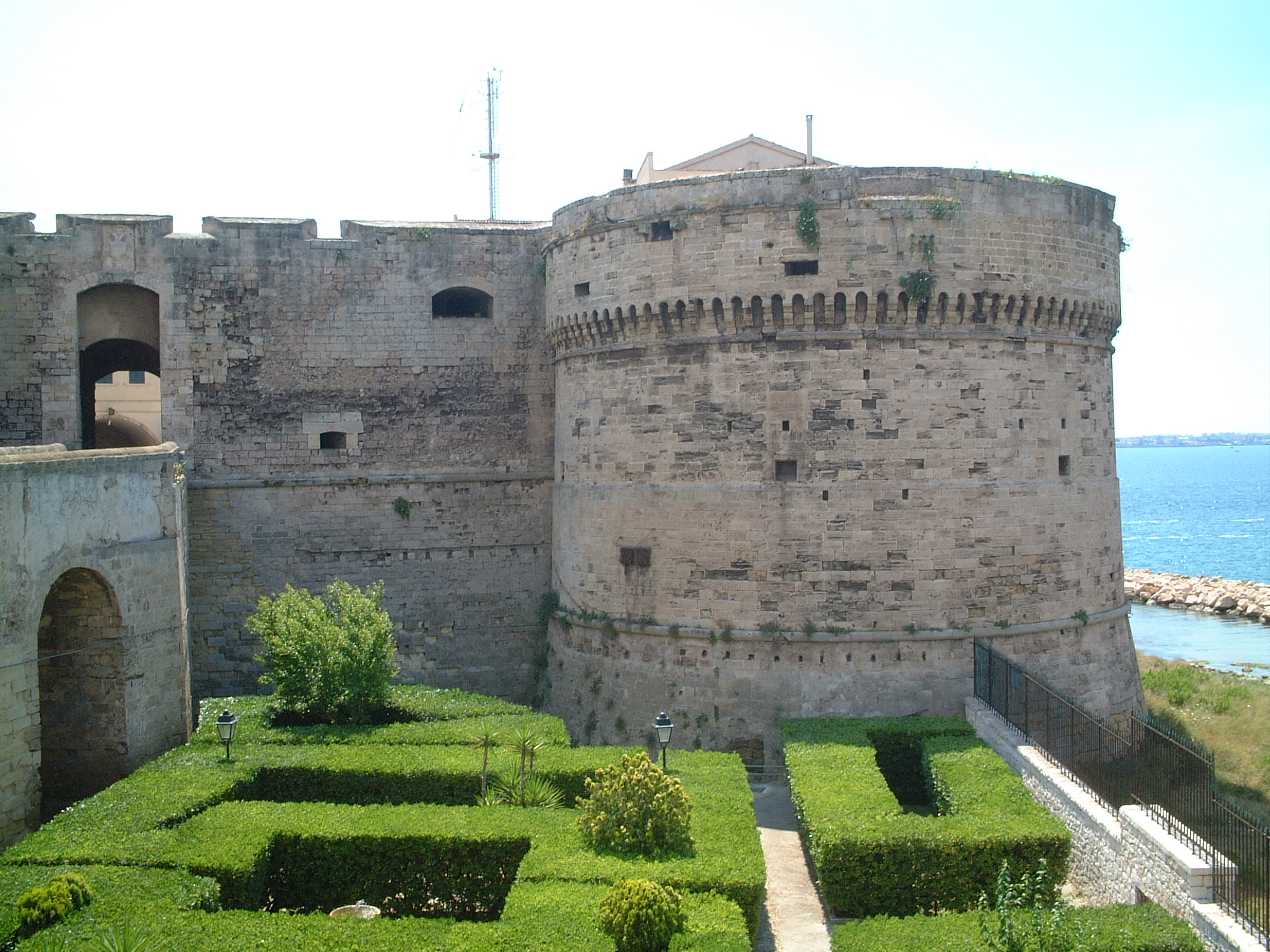 Castello Aragonese. Photo taken in Tarant Puglia Italy.